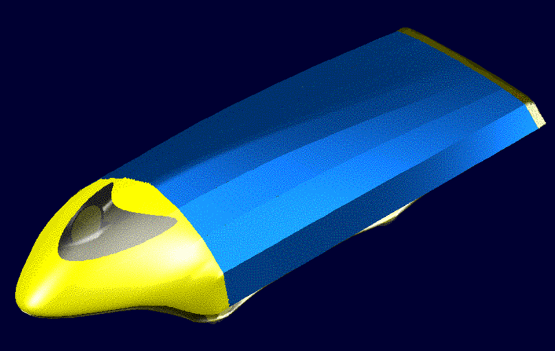 Maize & Blue CATIA model.